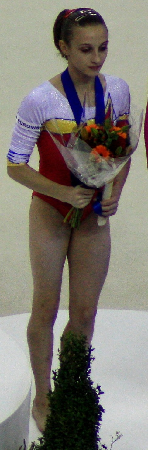 Podium of the uneven bars at the 2009 World Artistic Gymnastics Championships. From left to right on the podium: Koko Tsurumi (Japan, 2nd place), He Kexin (China, 1st place) Ana Porgras (Romania, 3rd place eq.) and Rebecca Bross (USA, 3rd place eq.). Behind them, we can see gymnasts waiting for the medal ceremony for the rings. From left to right: Jordan Jovtchev (Bulgaria, 2nd place), Yang Mingyong (China, 1st place) and Oleksandr Vorobiov (Ukraine, 3rd place).